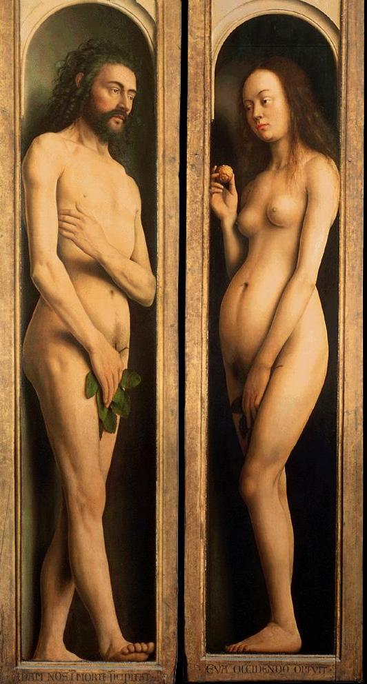 Adam and Eve, The Ghent Altarpiece , painted 1432. Cathedral of Saint Bavo, Ghent, Belgium.